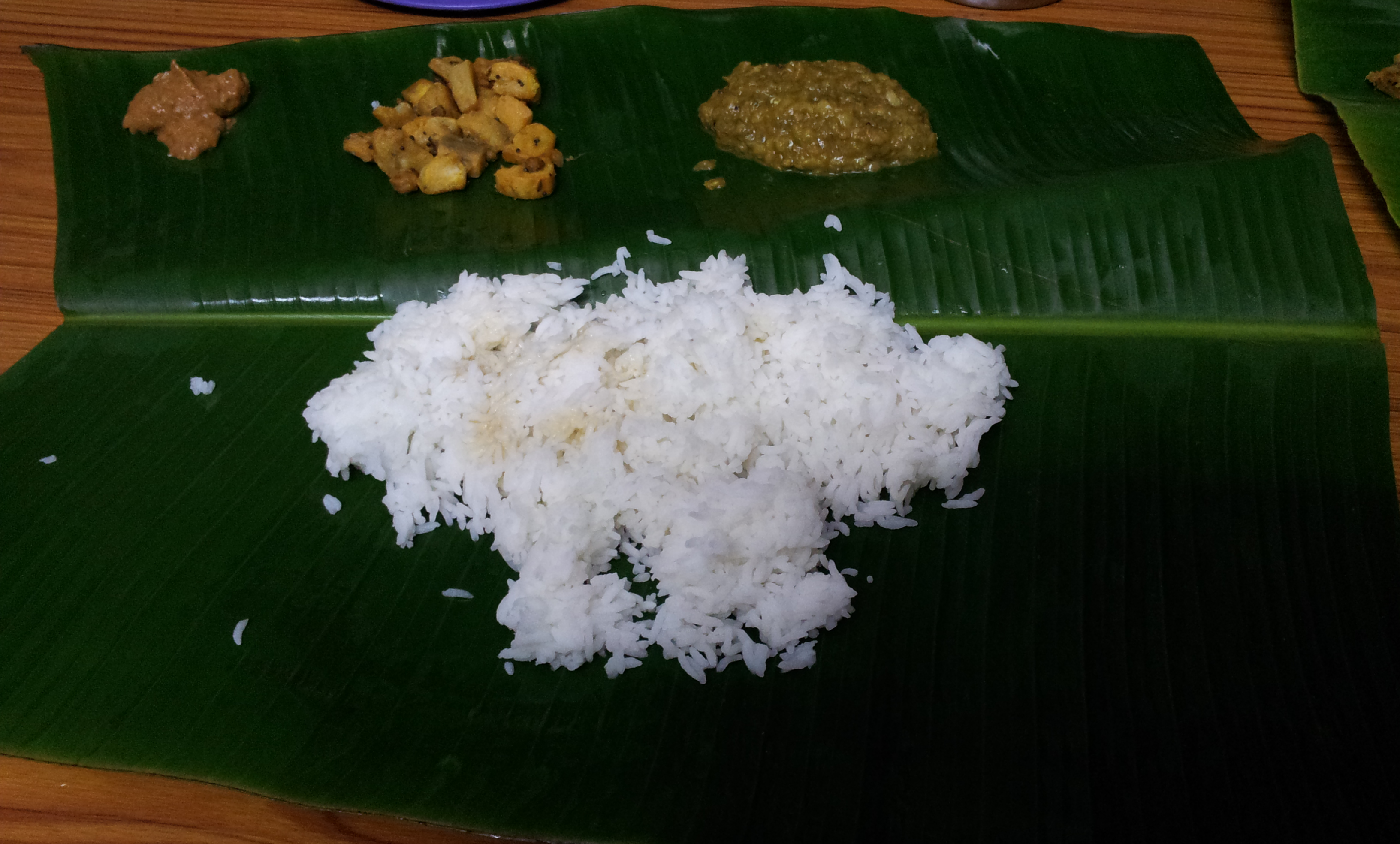 Food served on Banana Leaf. This is a traditional way of serving food more popular in Southern India.